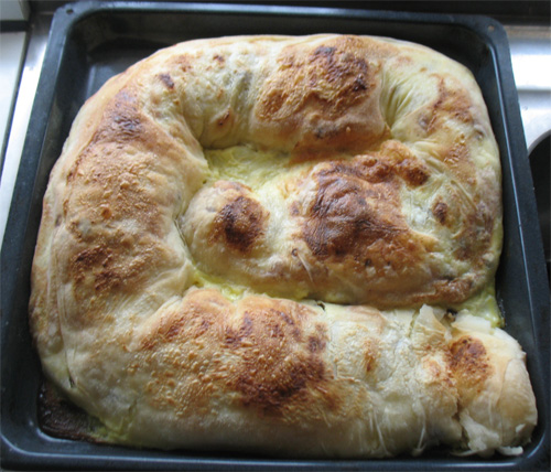 Strudel